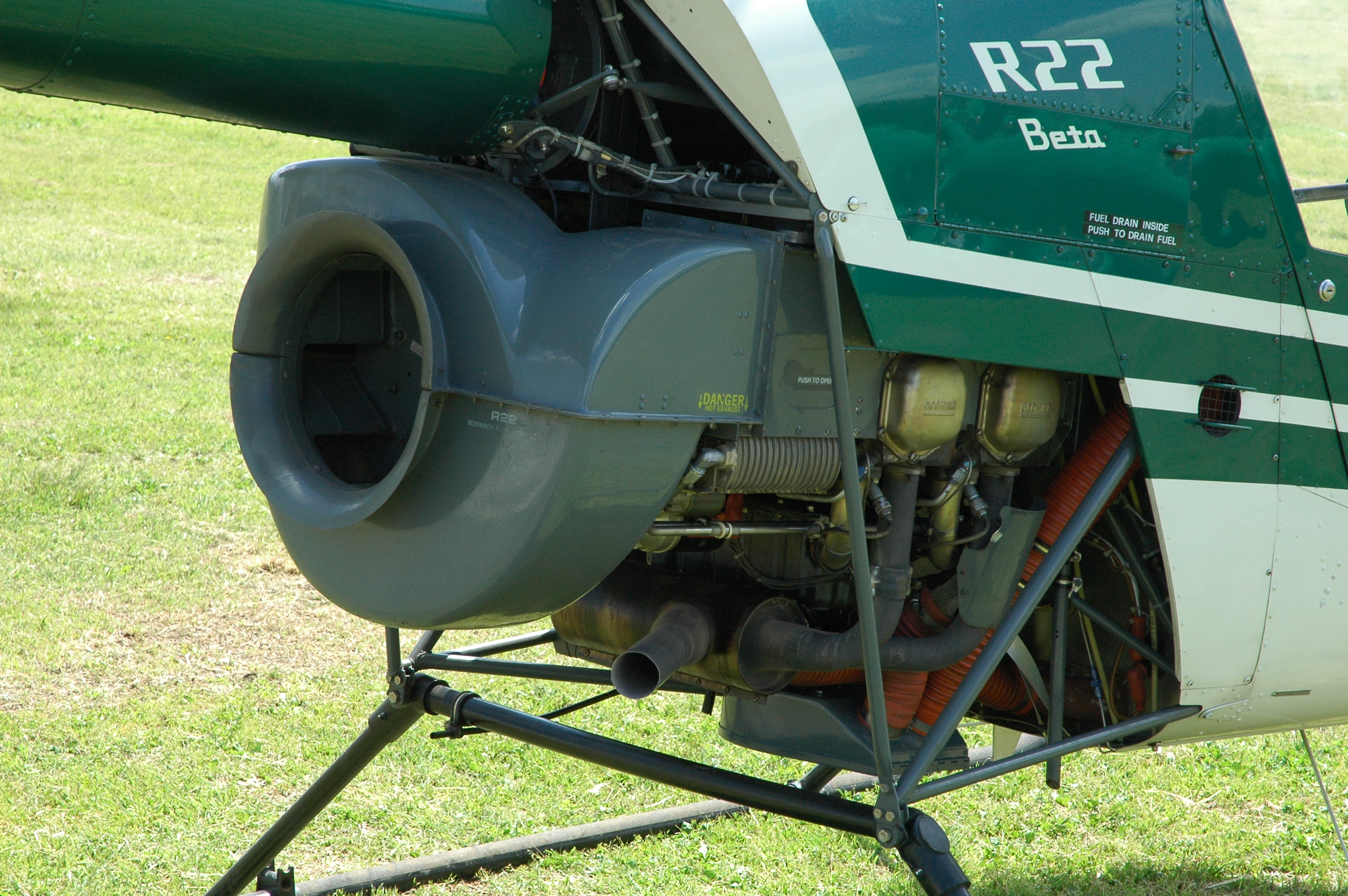 Robinson R22 Beta; Aviosuperficie FlyRoma. Lycoming O-320 engine detail